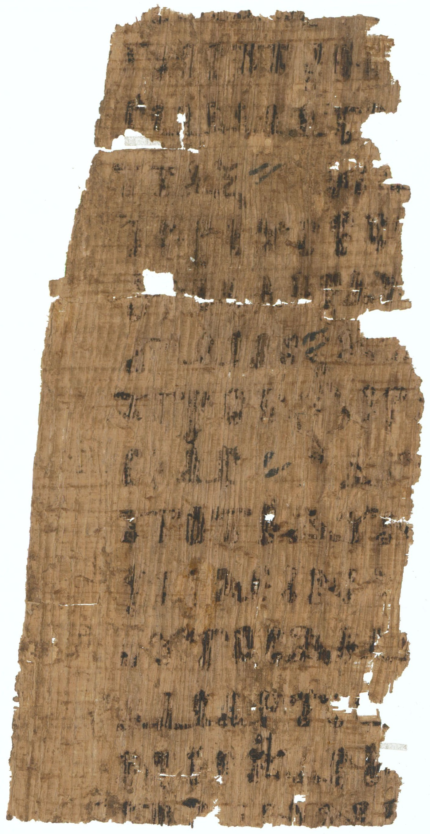 Papyrus 79 - Staatliche Museen zu Berlin inv. 6774 - Epistle to the Hebrews 10:10-12.28-30 - verso